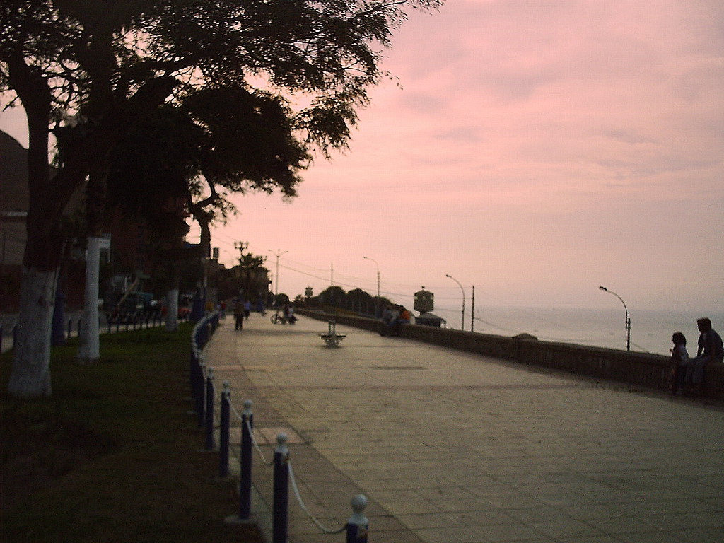 This picture was taken by me on april 10, 2006 with a Vivitar camera